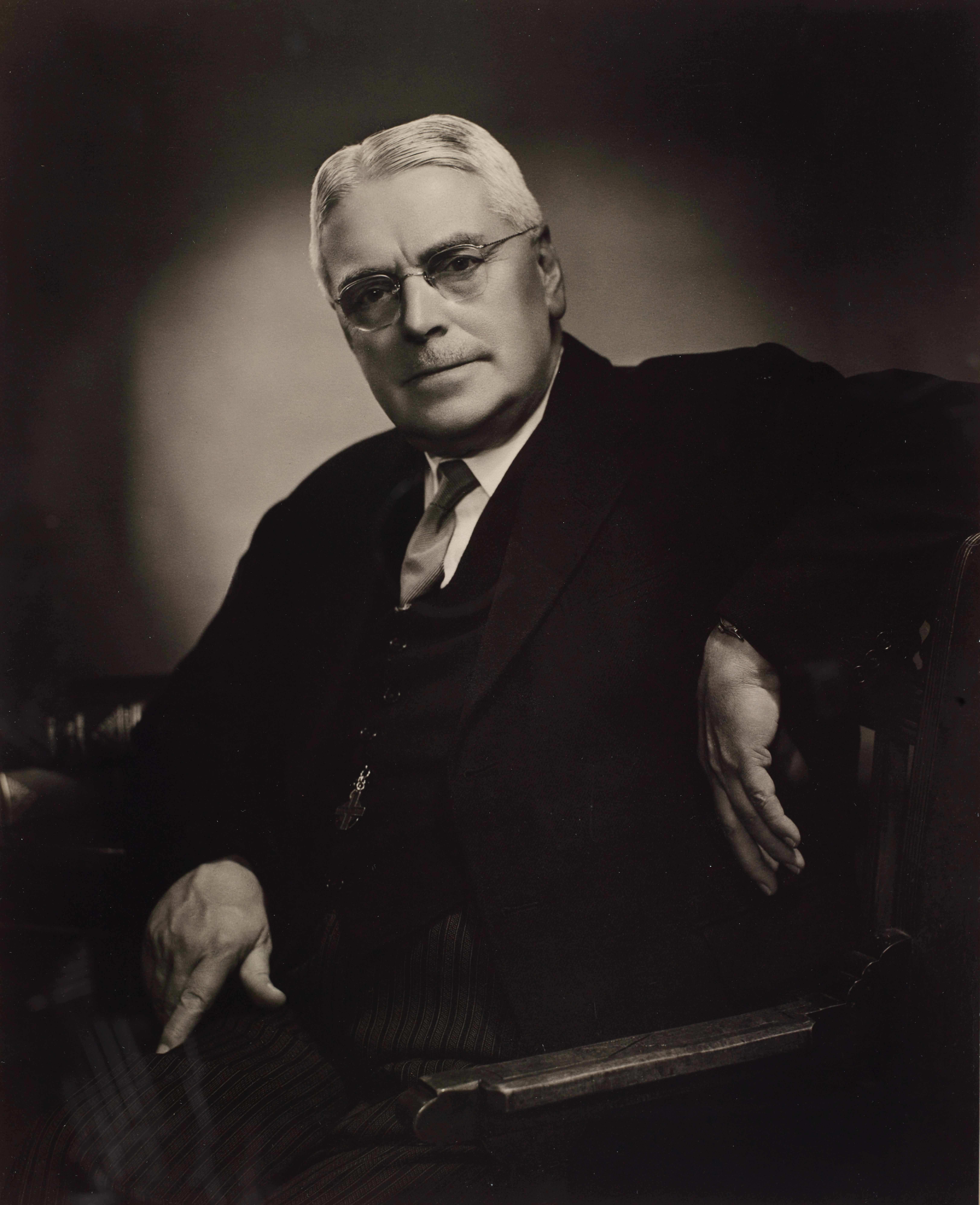 Portrait of Walter Nash, 1950's. Gift to Te Papa from William and Jill Main, 2014.